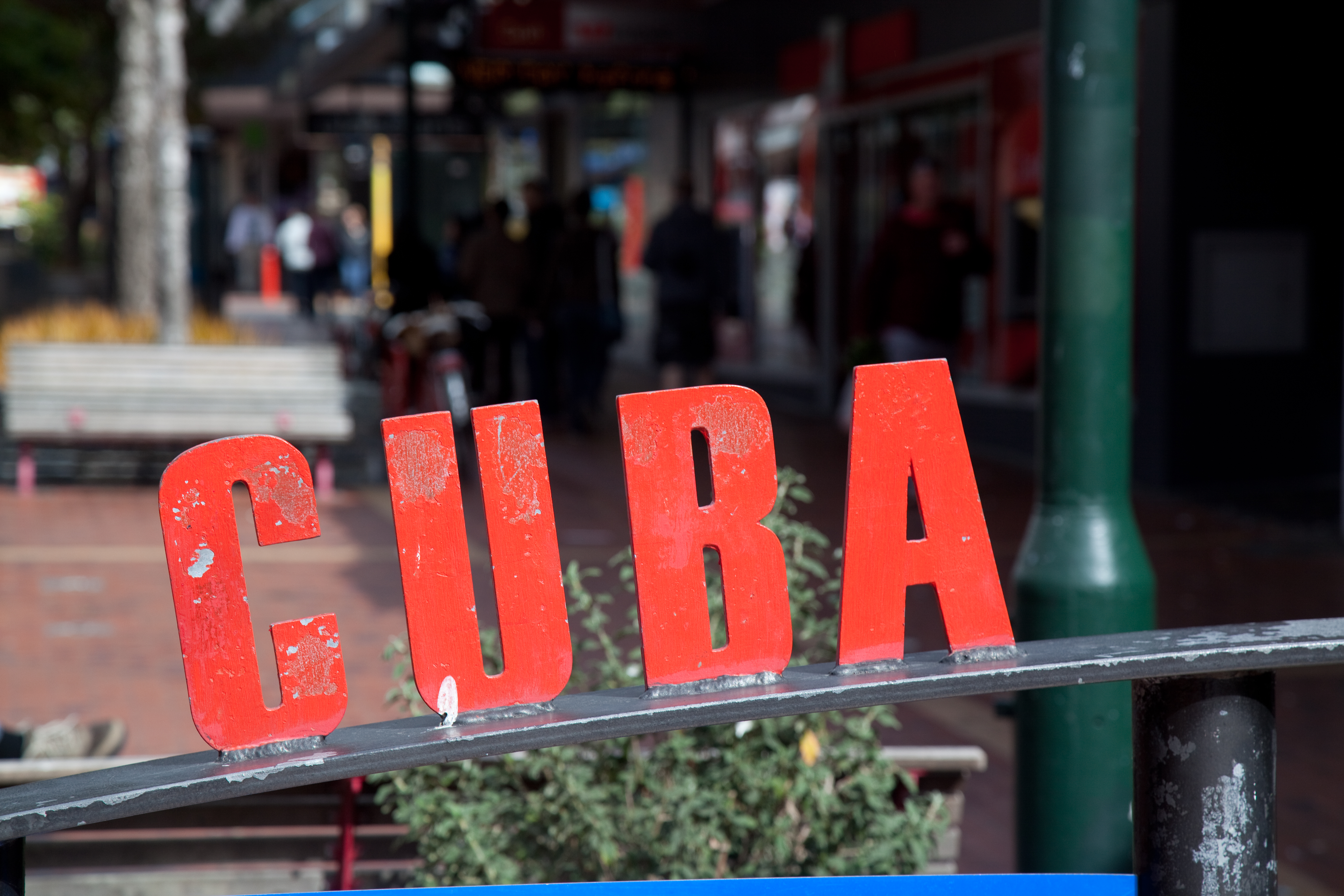 Cuba Street Mall